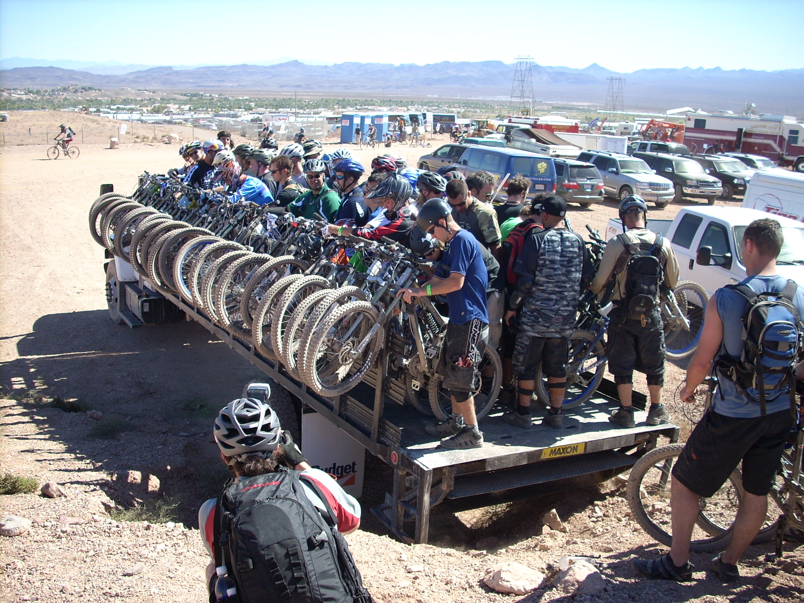 Shuttle traffic (MTB)